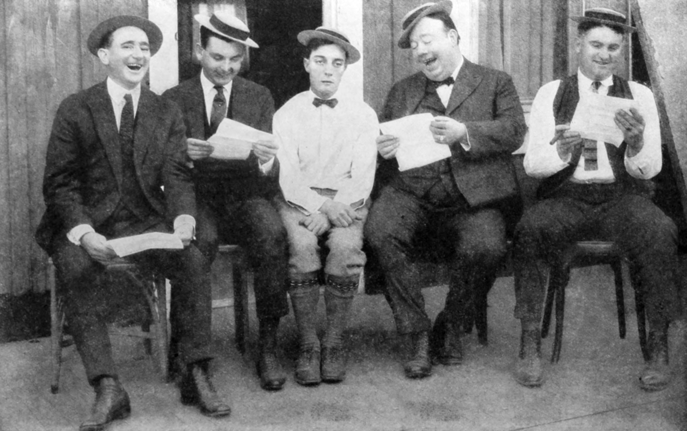 Photograph of Buster Keaton with his writing staff. Caption reads as follows:Buster Keaton's gag department at work, with (left to right) Joe Mitchell, Clyde Bruckman, Buster himself, Jean Havez and Eddie Cline.